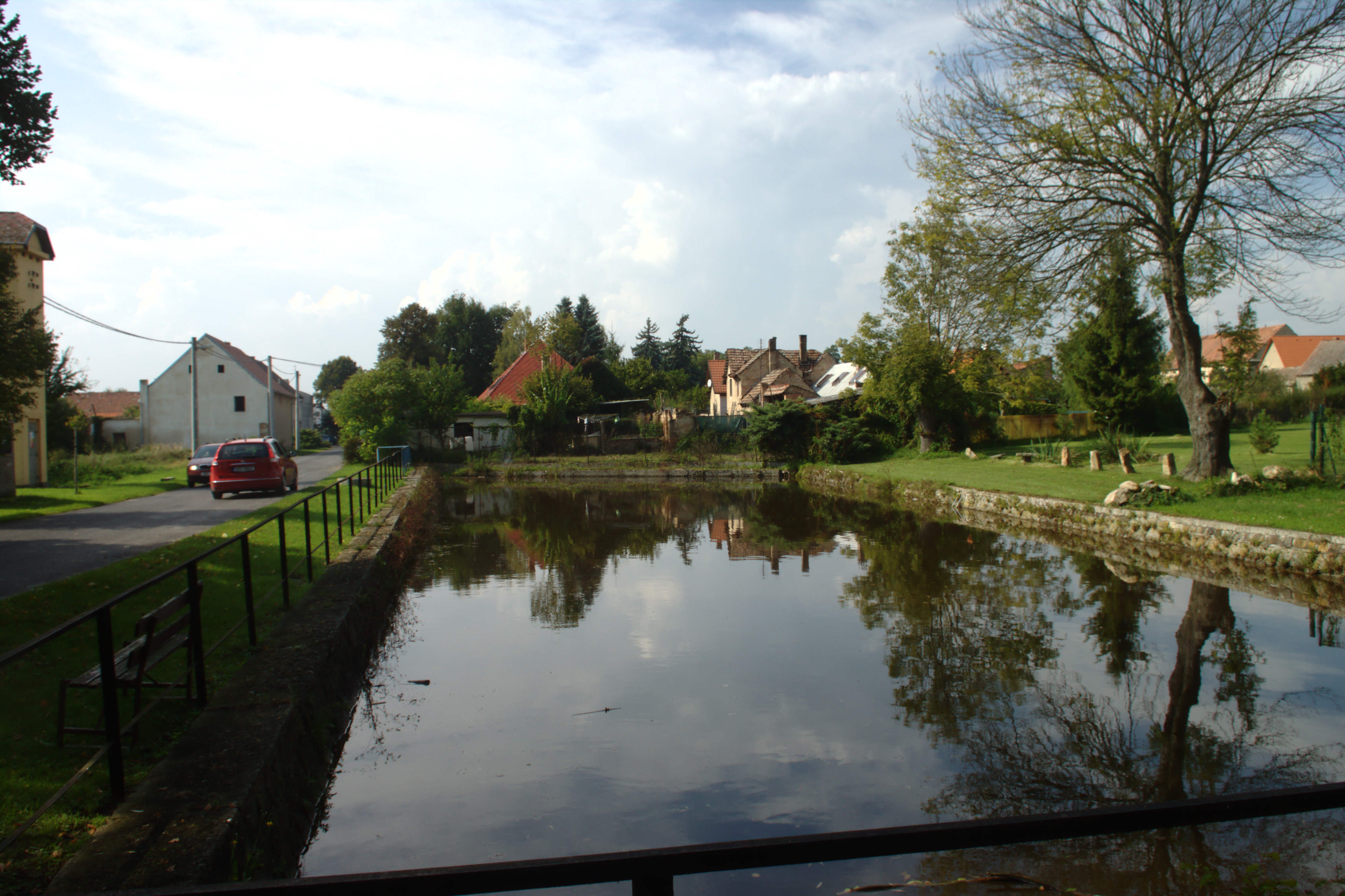 A pond in the village of Oleško, Ústí Region, CZ